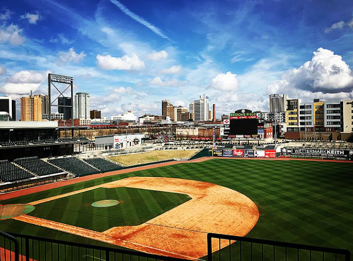 Regions Field in Birmingham, Alabama.